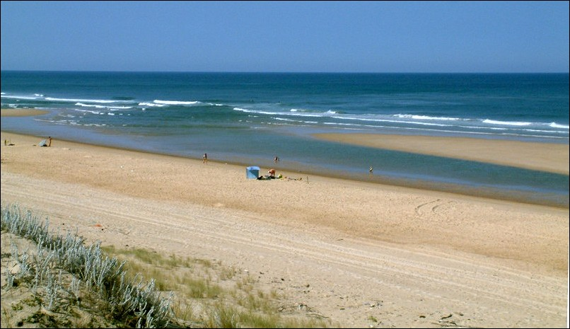 Beach and littles bays, fotographed during low tide. During high tides they give rise to unexpected currents near the beach which may confuse swimmers. See article strand Related picture: image:strandsandschemarp.jpg Own work. Anton 2006